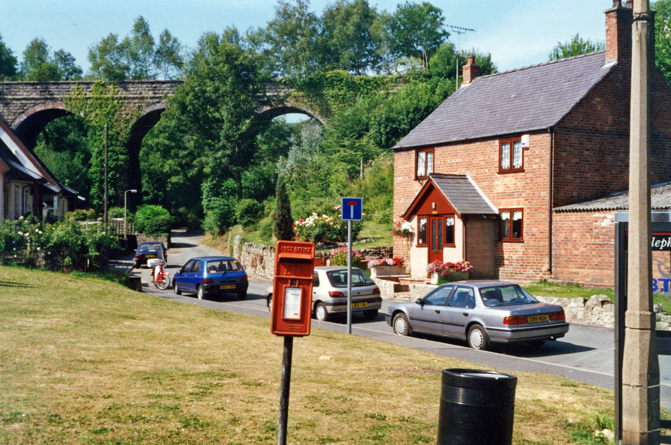 Site of former Frith station, 1995. View northward on Valley Road to the viaduct that formerly carried the GWR & LNWR (Wrexham & Minera) Joint) line, Wrexham (to left) - (to right) Coed Talon - Mold line. The station (just to the left) and line had been closed since 27/3/50, but the substantial viaduct over the Nant-y-Ffrith river survives. (This site had been difficult to pin-point and photograph in 1995 and also to establish on recent Streetview as so much had changed since 1995; once again I am indebted to Stephen Wilks for confirmation).